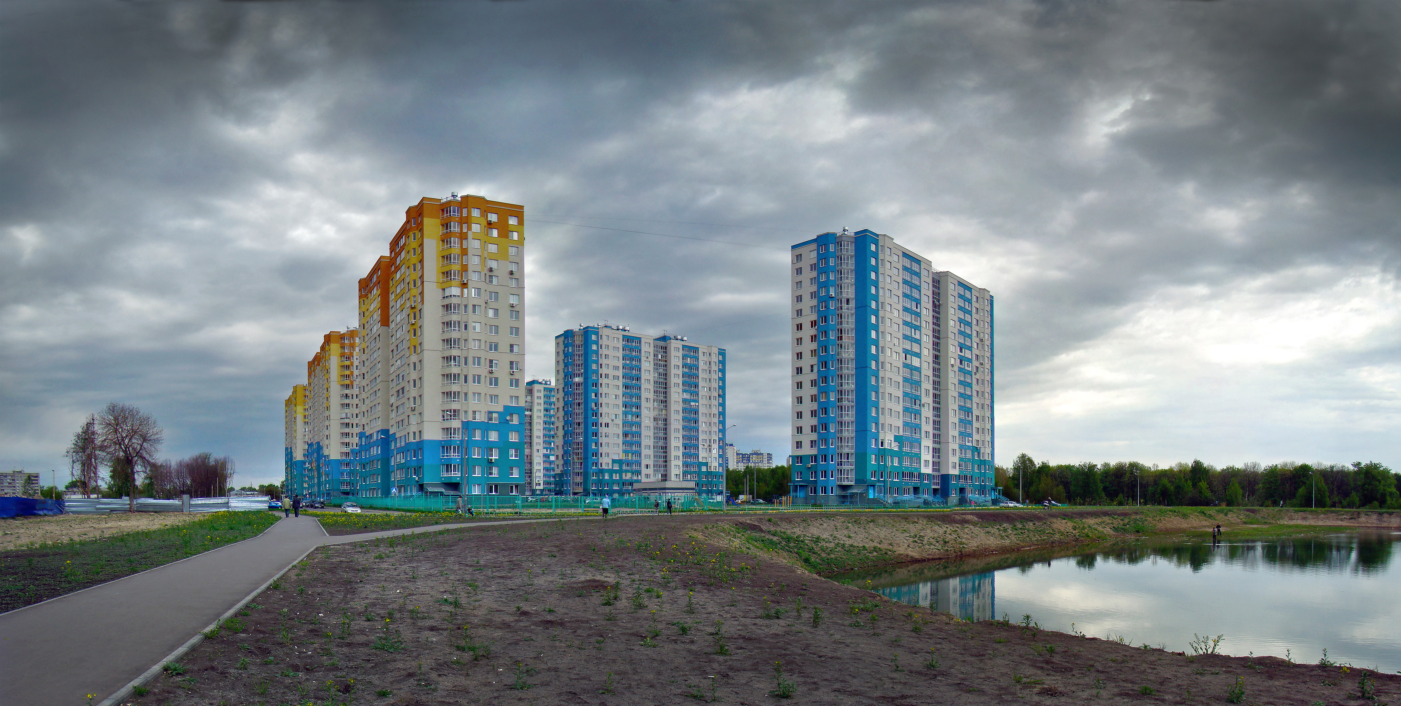 Nizhny Novgorod. View to Vodny Mir residential building complex, Avtozavodsky district.